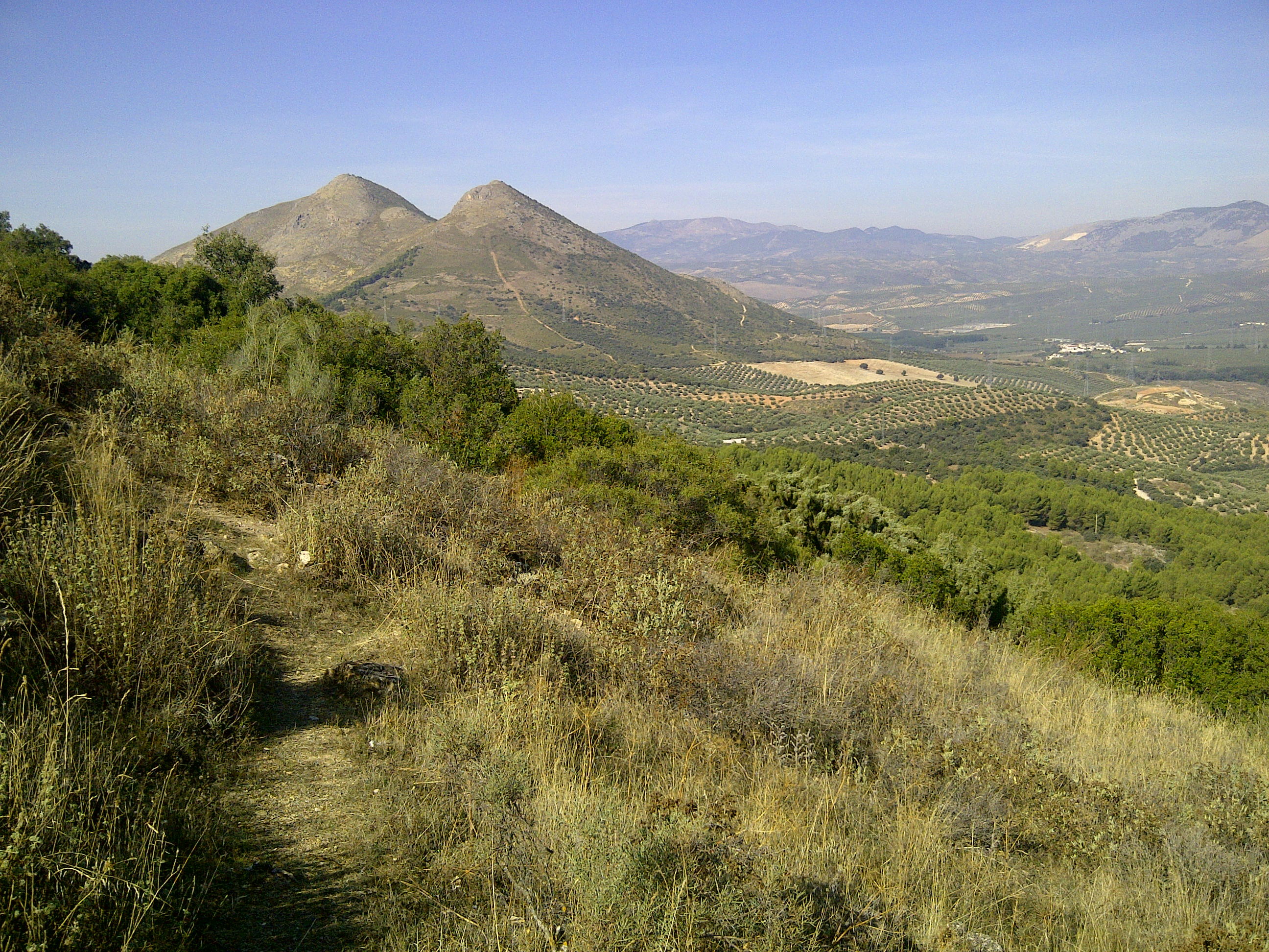 El Pico Elvira, a la izquierda, mayor elevación de La Sierra Elvira, visto desde el monumento, El Torreón de Albolote, siglo XII.